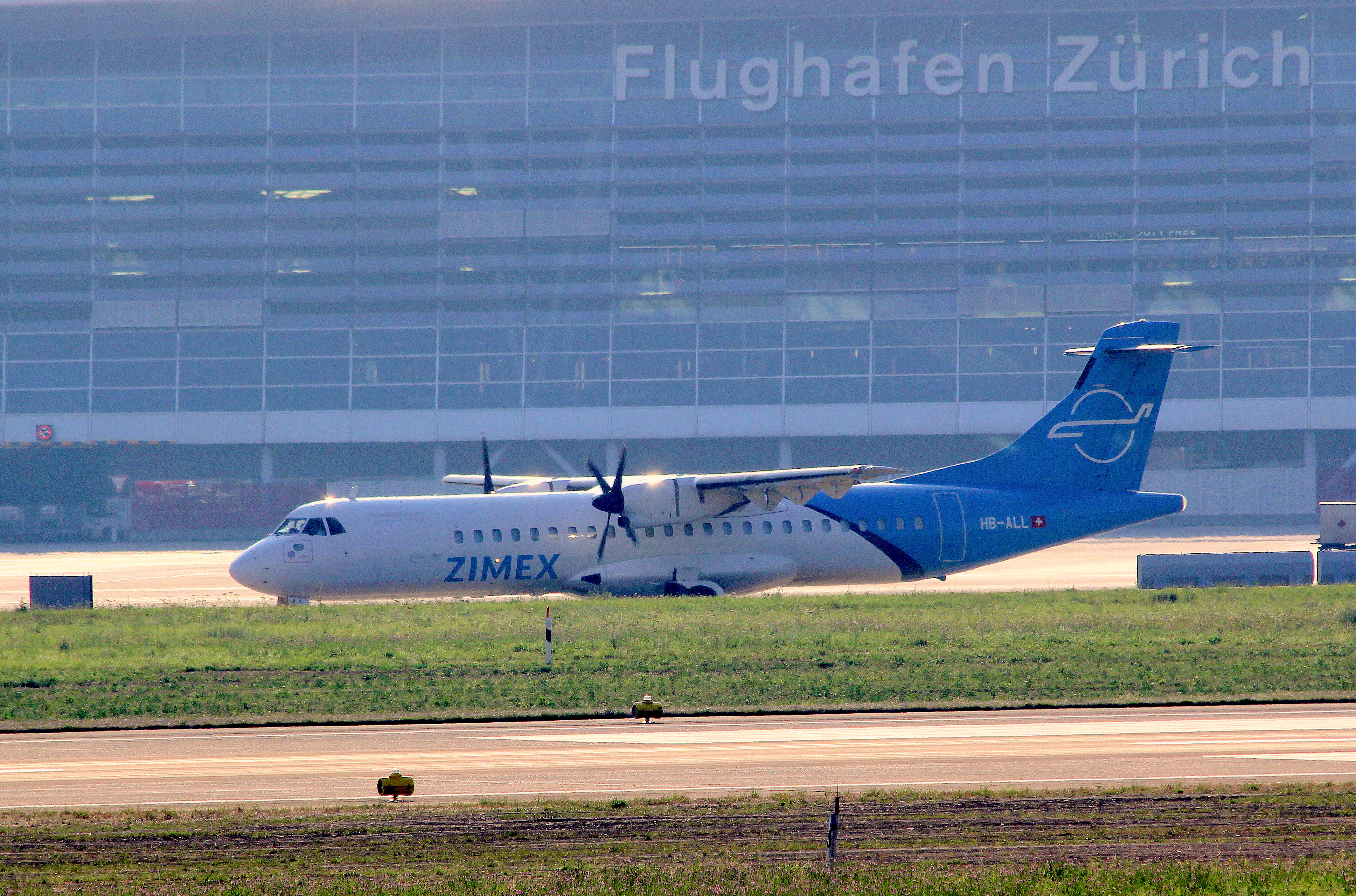 HB-ALL ATR72-202F at Zurich Airport